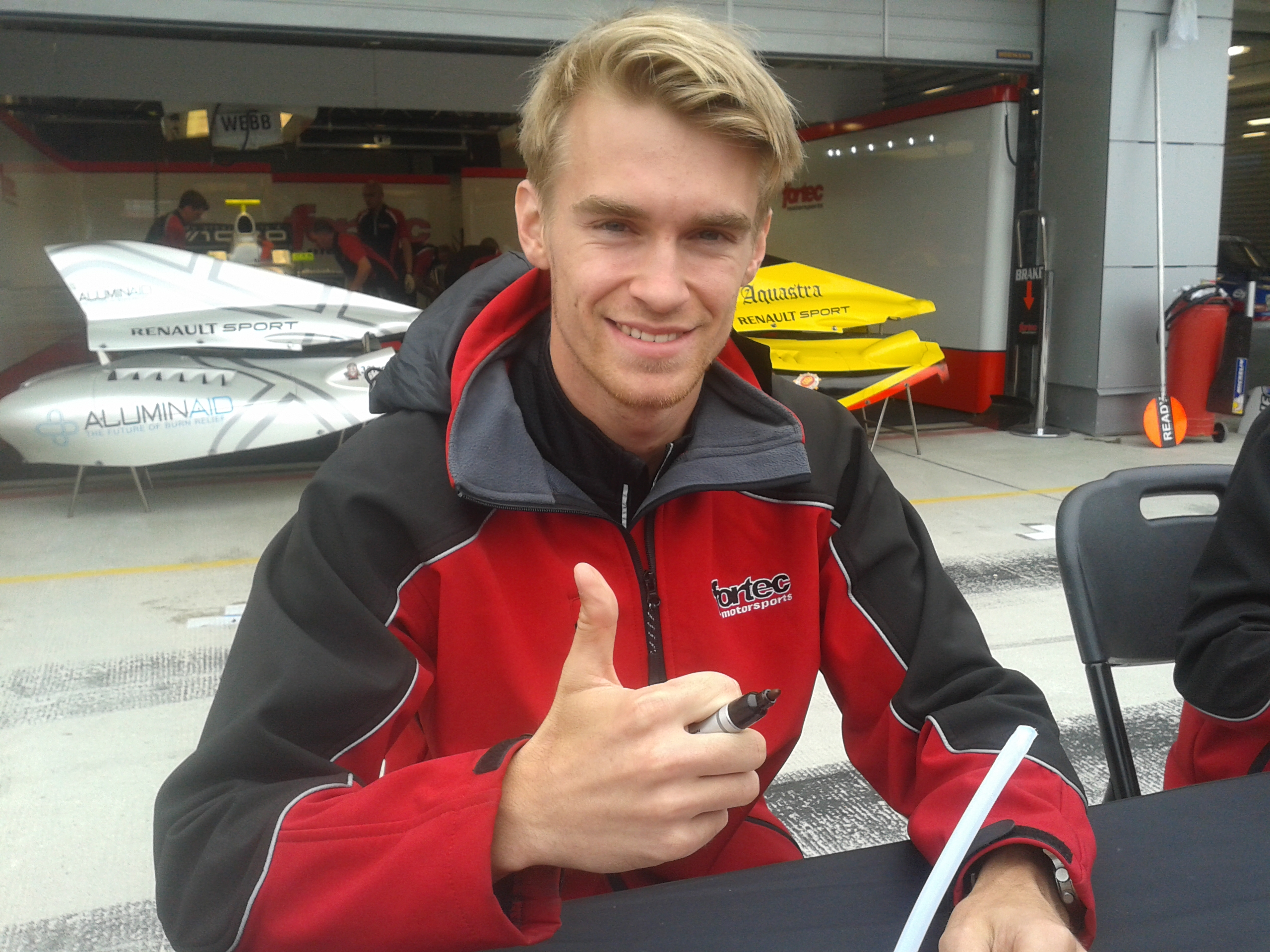 Oliver Webb at Moscow Raceway, 22 June 2013